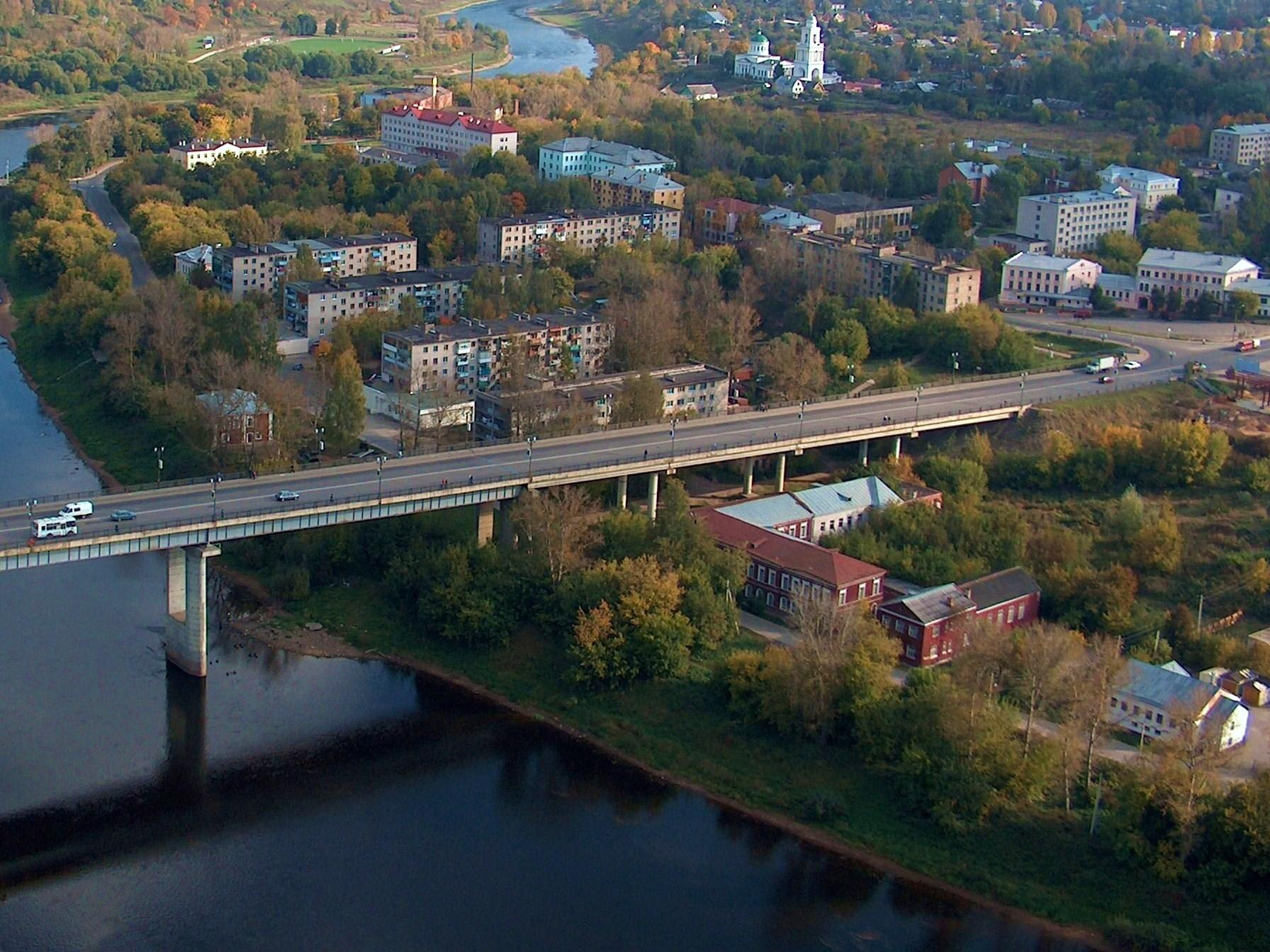 Rzhev, right bank of the Volga